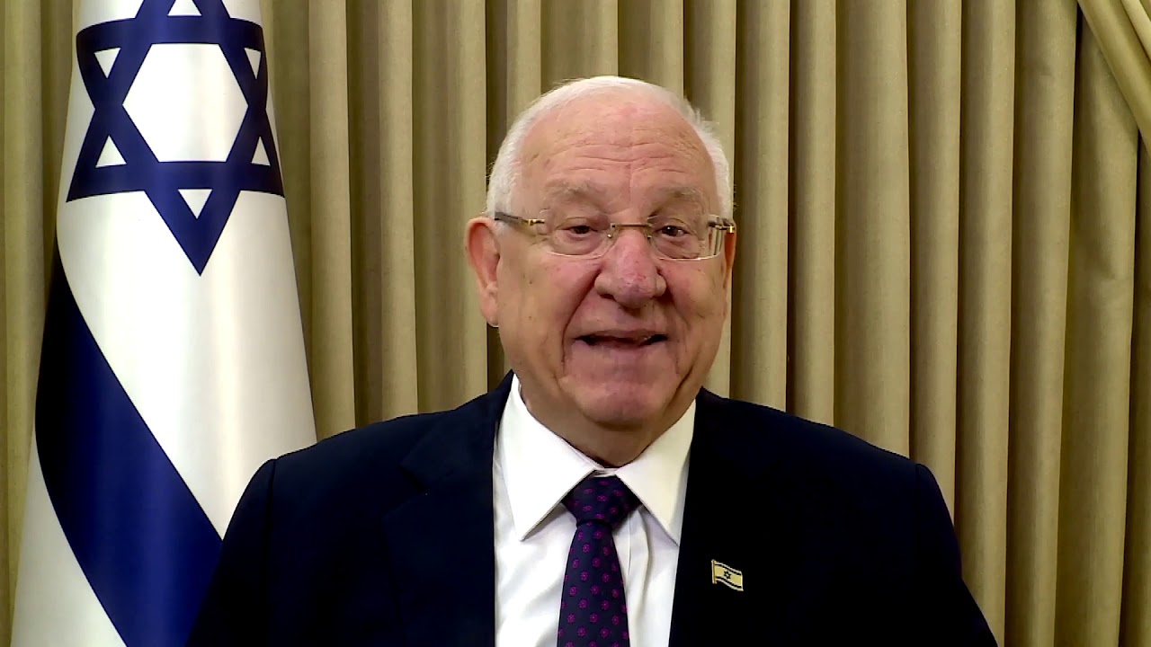 President of Israel, Reuven Rivlin, remarks during 2020 Virtual March of the Living